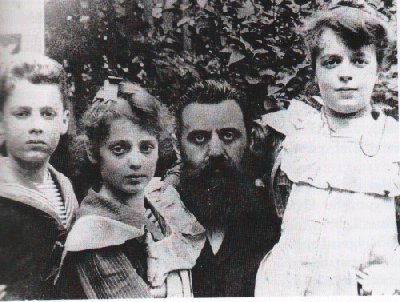 Theodor Herzl (1860-1904) with his children.